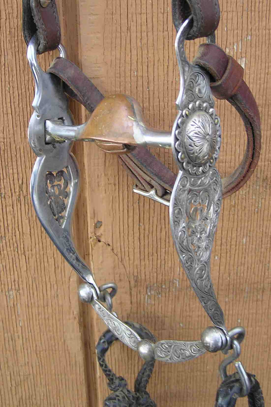 A western style curb bit with silver design, suitable for show.